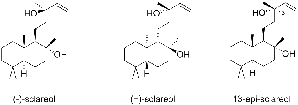 Sclareol (+)(-)-Isomers 13-Epimer